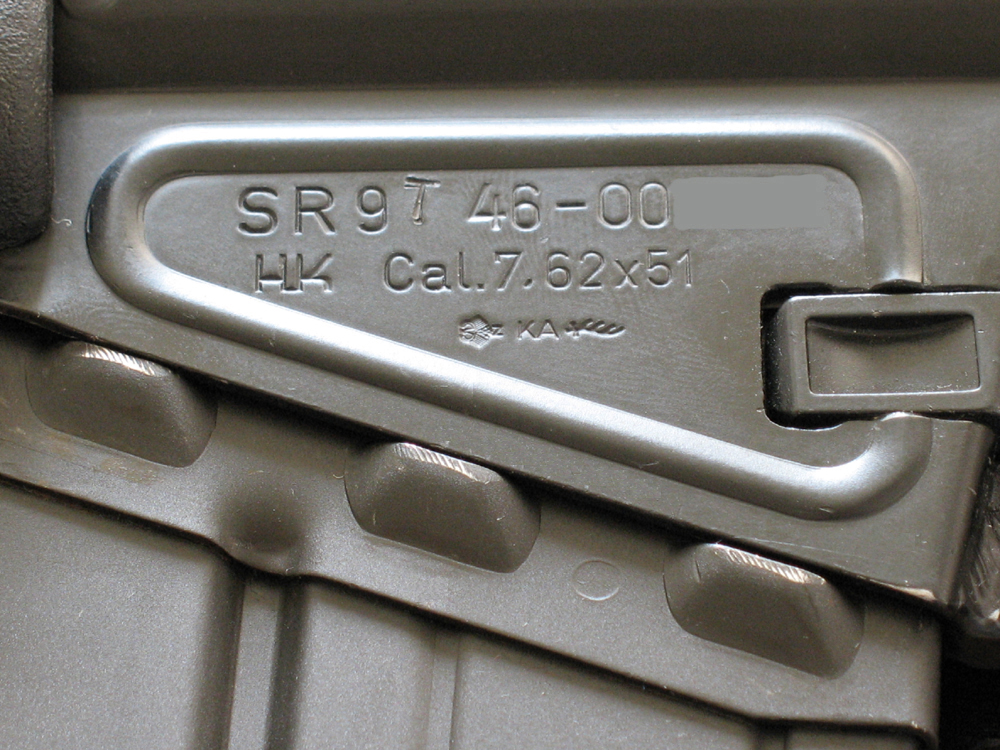 Picture of an H&K SR9T Receiver